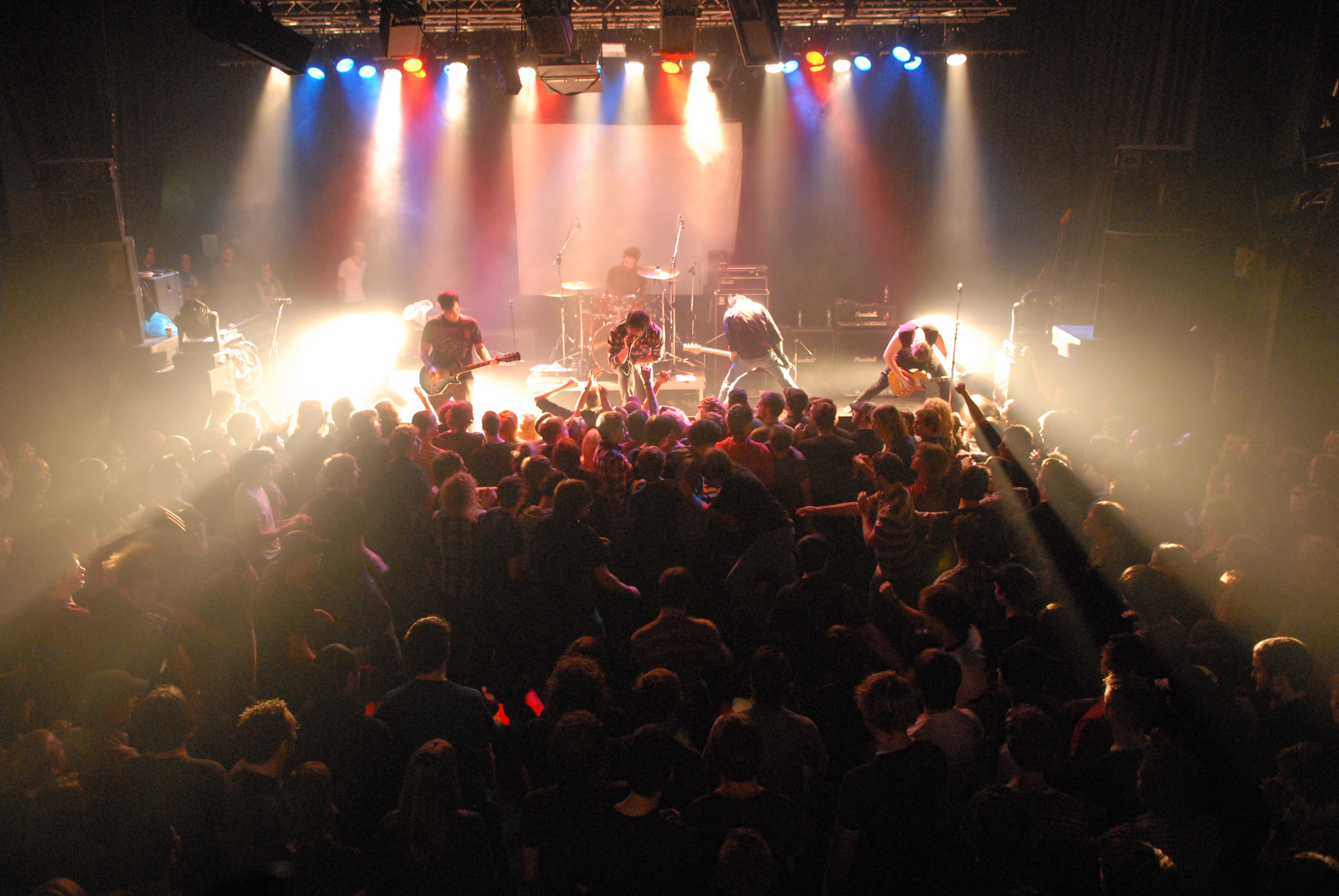 Norma Jean @ Tivoli de Helling 2007